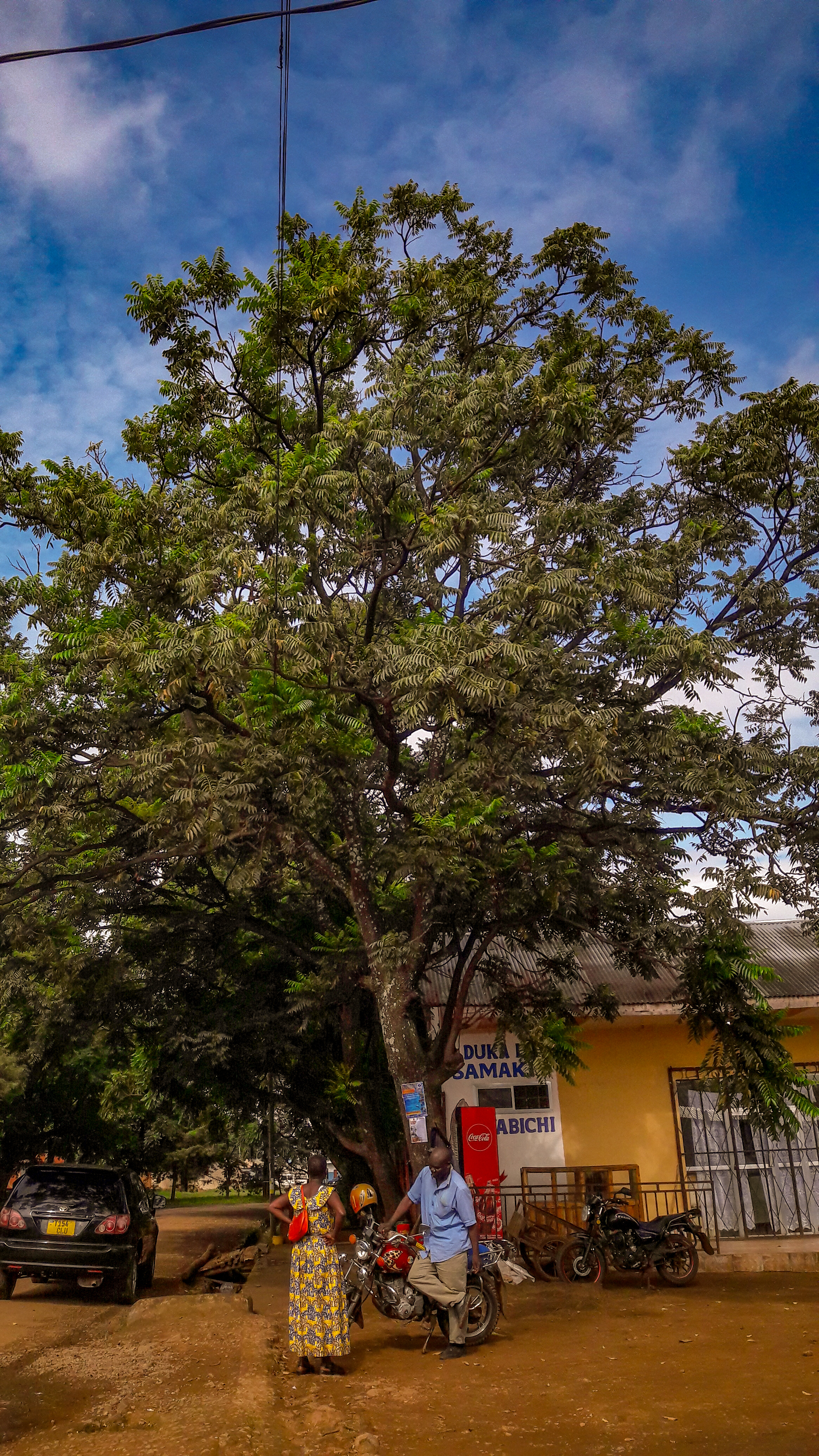 Transportation This is an image with the theme "Africa on the Move or Transport" from: Tanzania